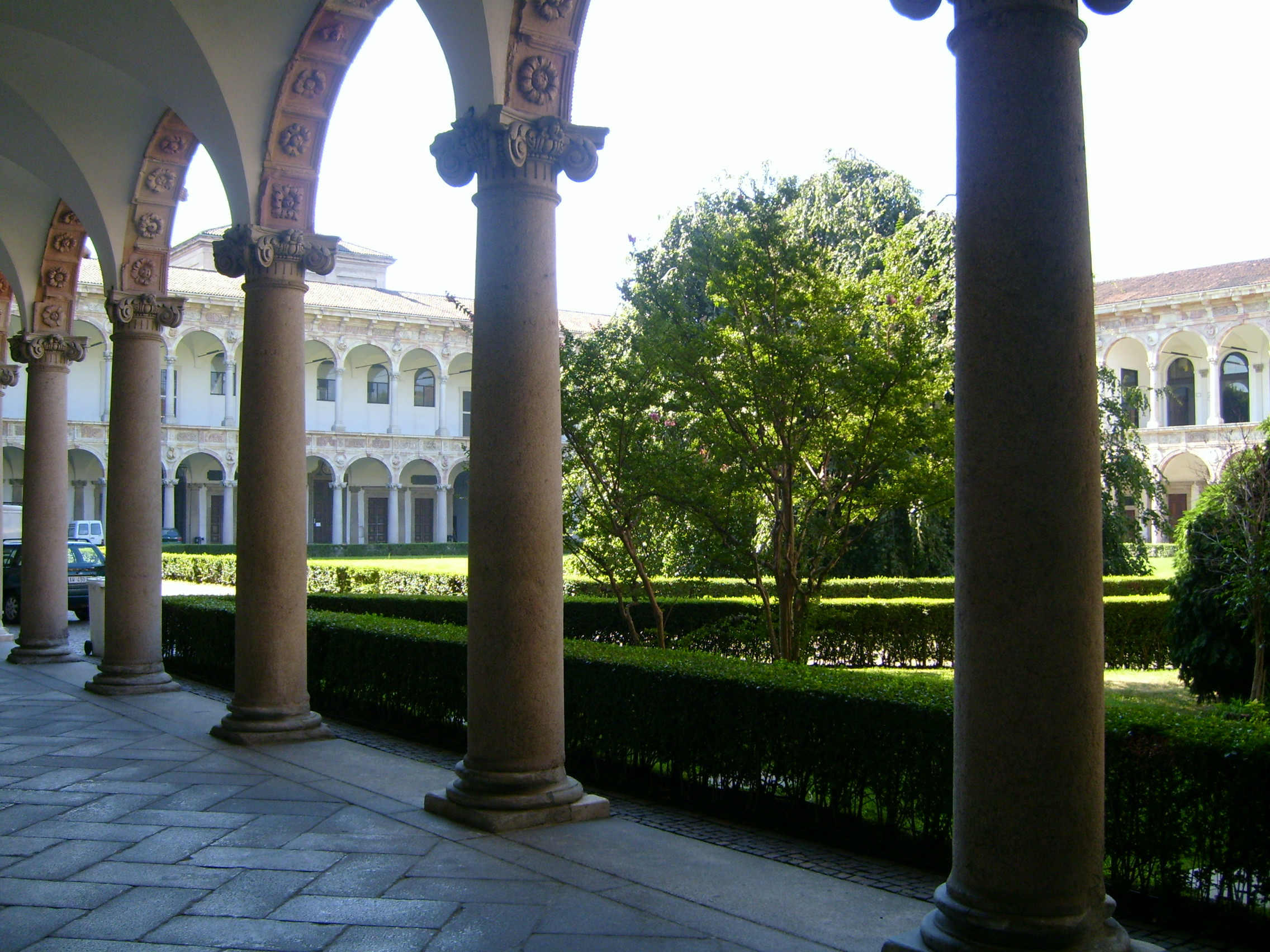 Main courtyard, Ca’ Granda, Milan, Italy